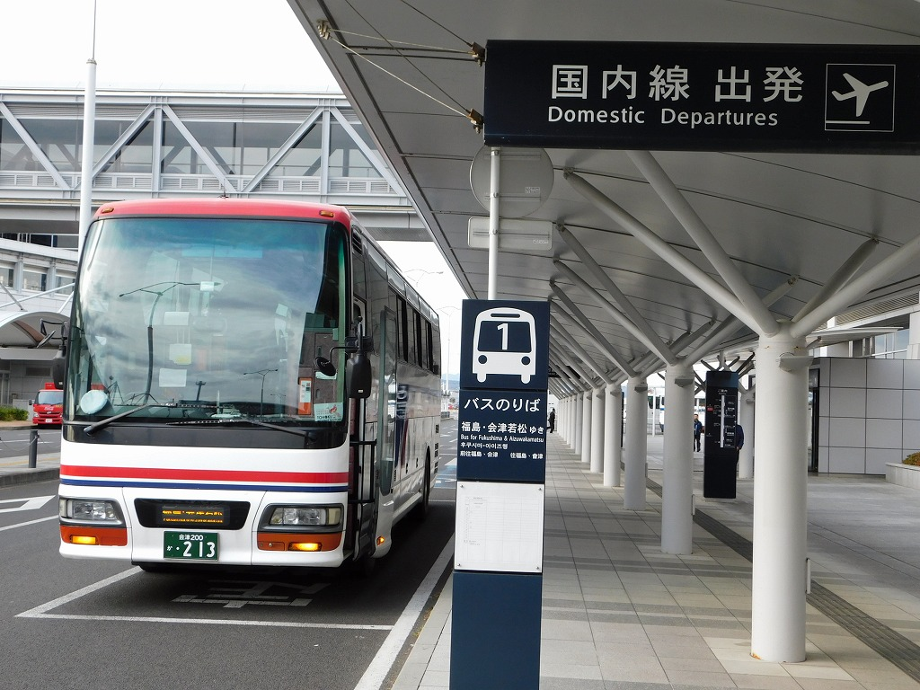 Aizu bus Sendai-Airport-Fukushima-AizuWakamatsu